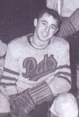 Dunc Fisher in the 1946-47 Regina Pats team photo